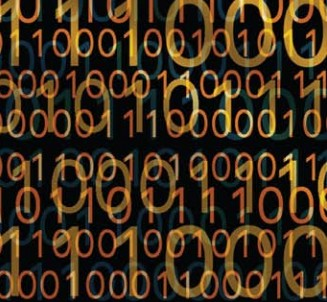 digital evidence